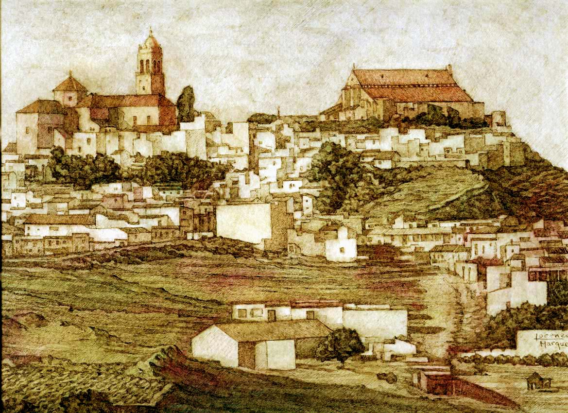 "Montilla", a drawing by painter Lorenzo Marqués showing a view of Montilla (Córdoba, Spain)